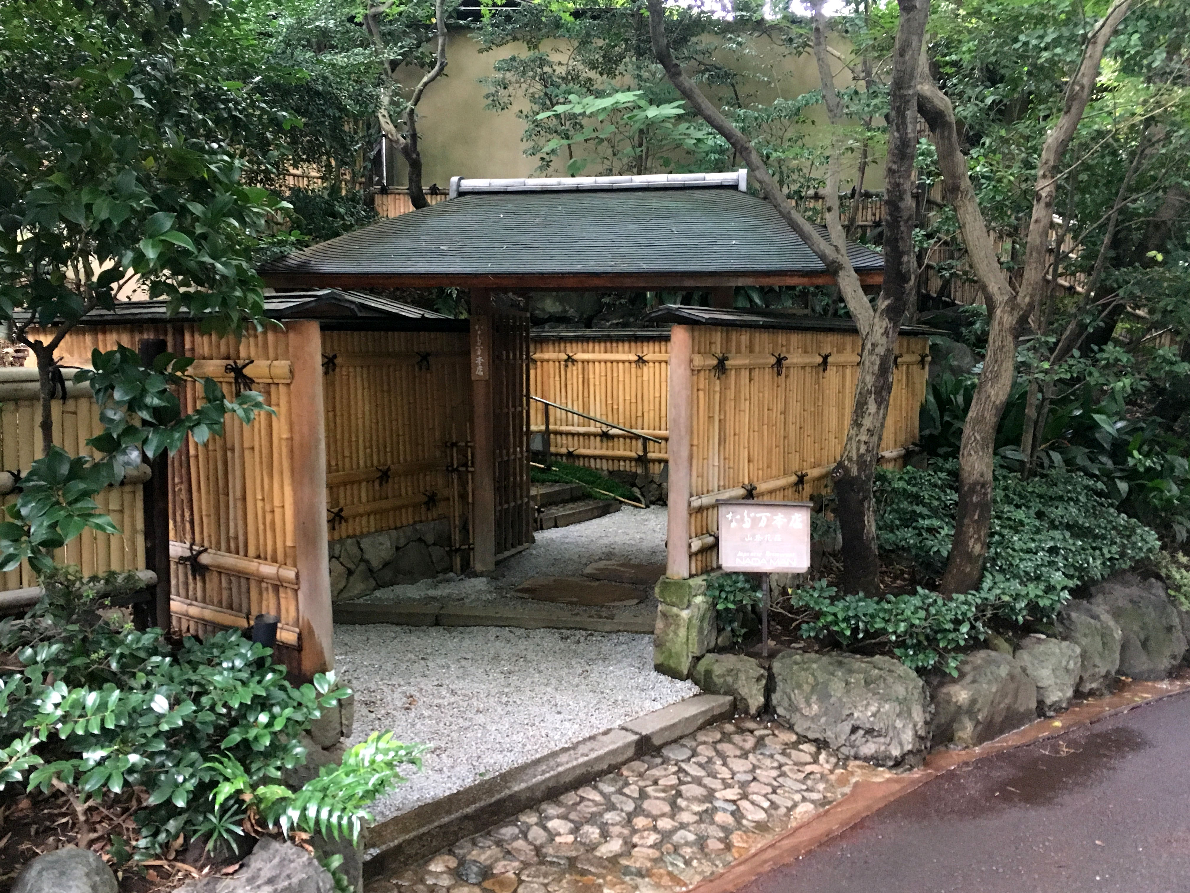 Nadaman main branch "Sazanka-so" (Japanese cuisine restaurant in Tokyo, Japan)